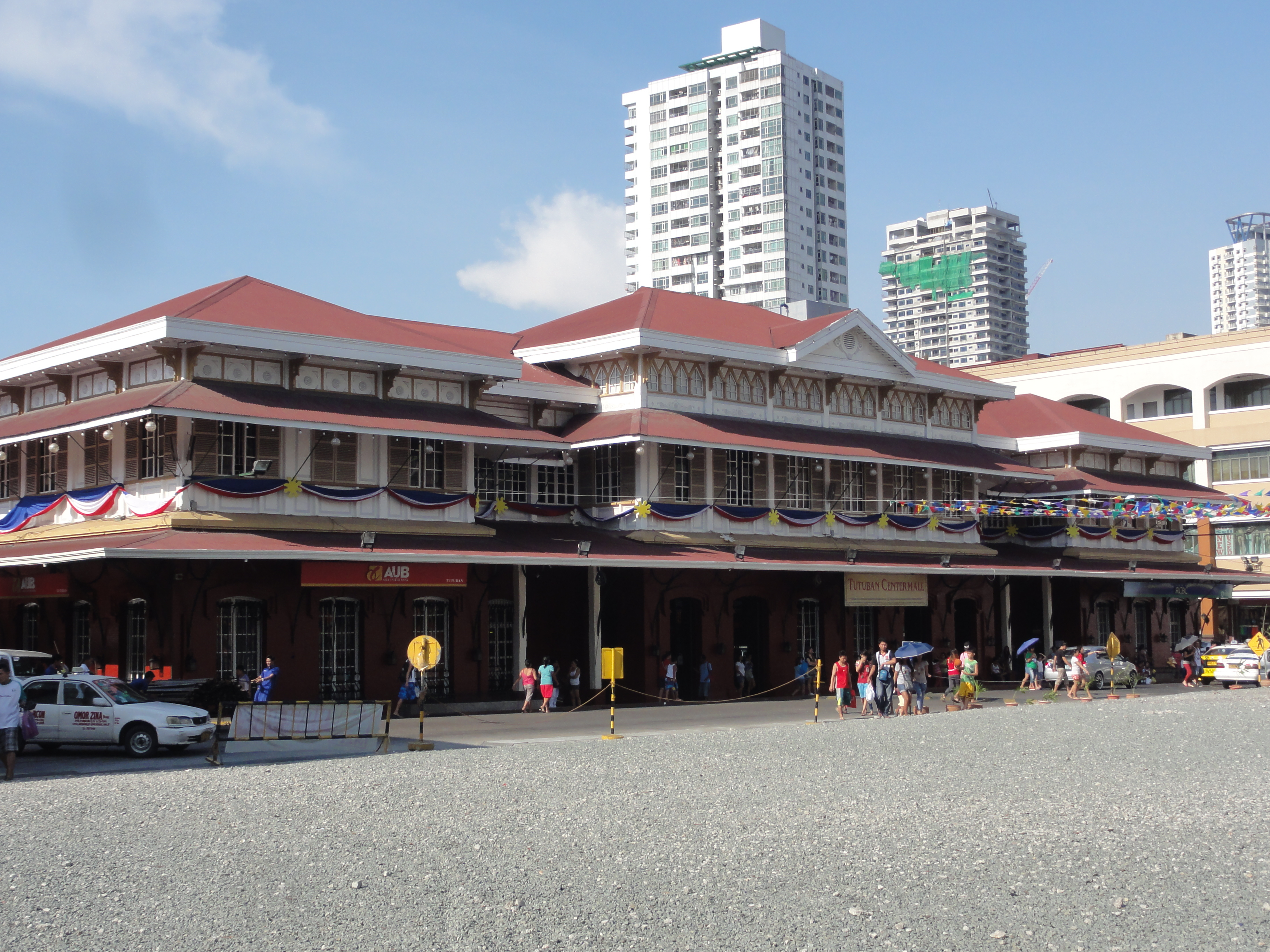 View of the main building of Tutuban Center mall along C.M. Recto Avenue, Divisoria, Tondo, Manila as of June 2015. It was formerly the main passenger terminal of the Philippine National Railways.